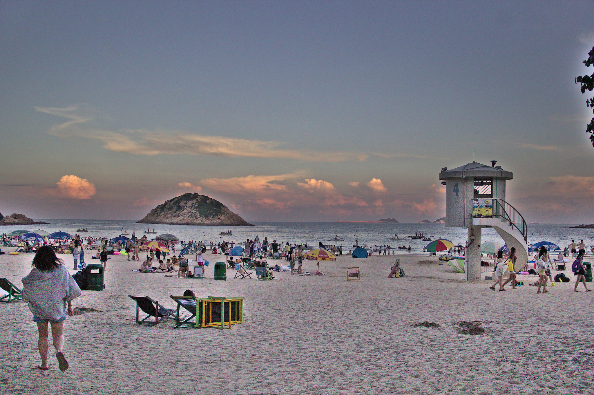 500px provided description: Beautiful Hong Kong beach [#Shek-O ,#Beach ,#Hong Kong]